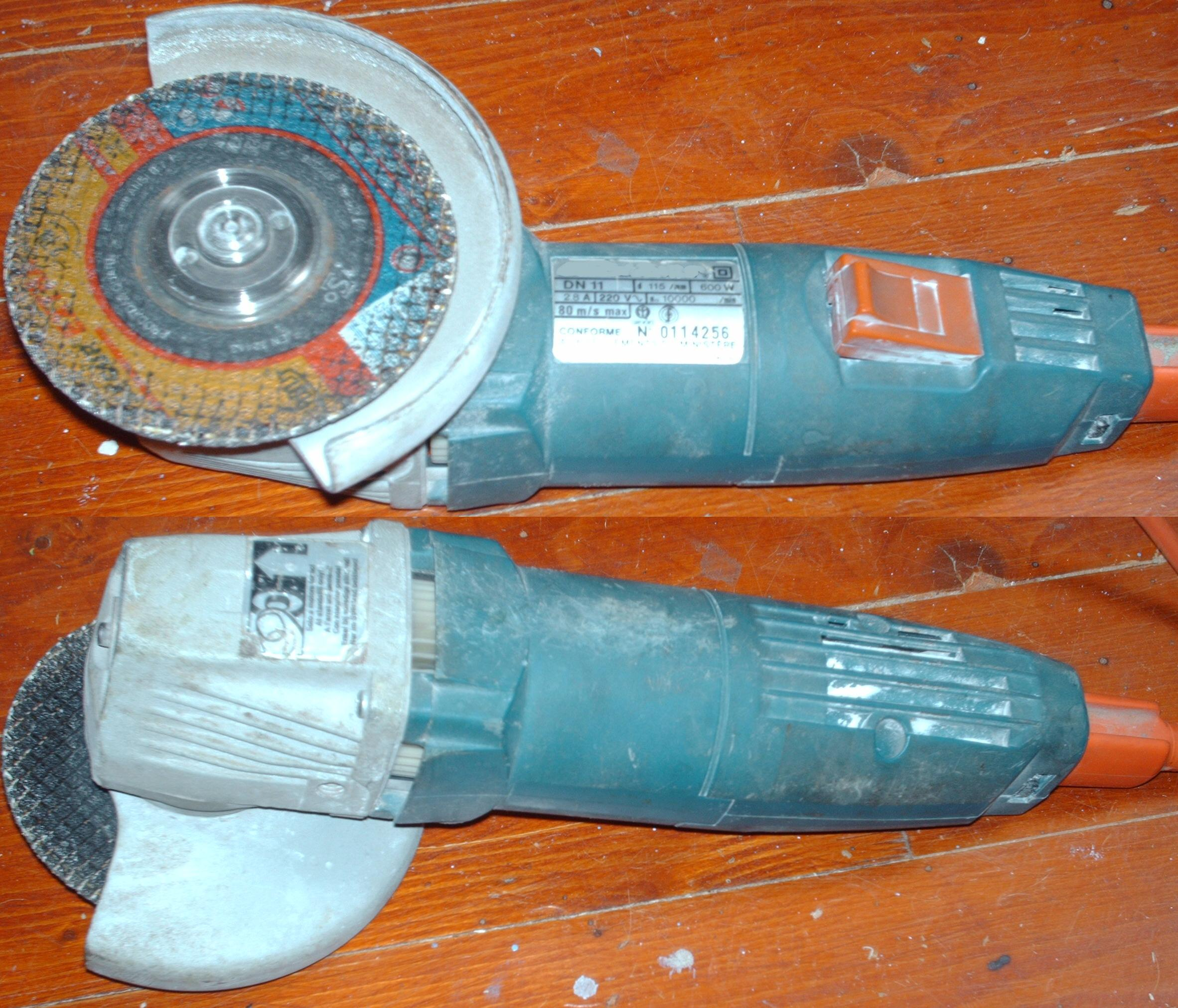 An Angle grinder, mark rubbed out by Primaxyes.